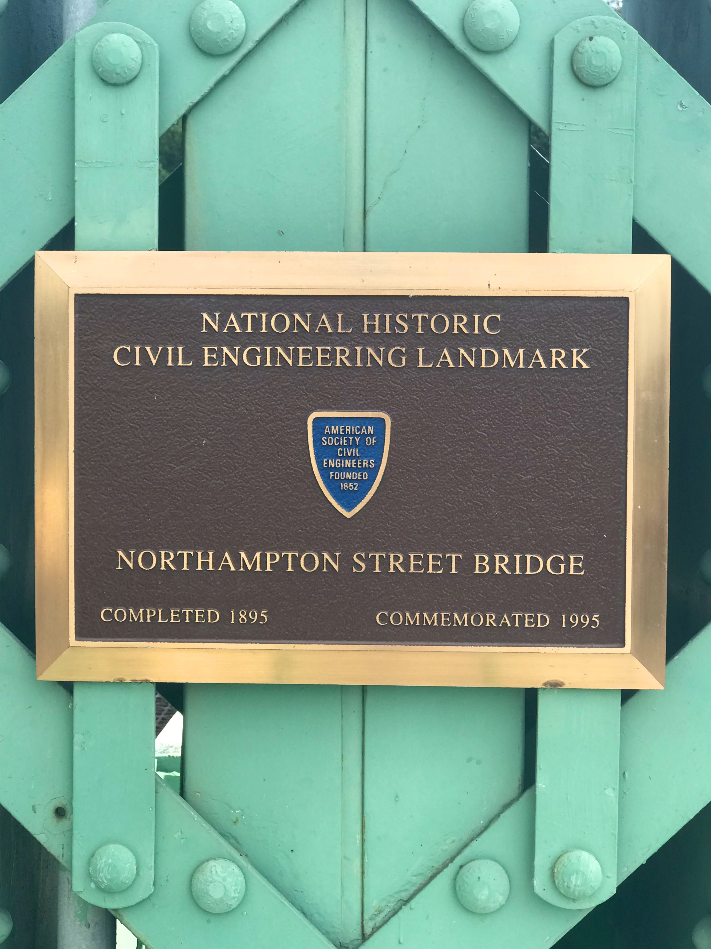 National Historic Civil Engineering Landmark plaque near Phillipsburg, New Jersey on the Northampton Street Bridge. Commemorated in 1995.